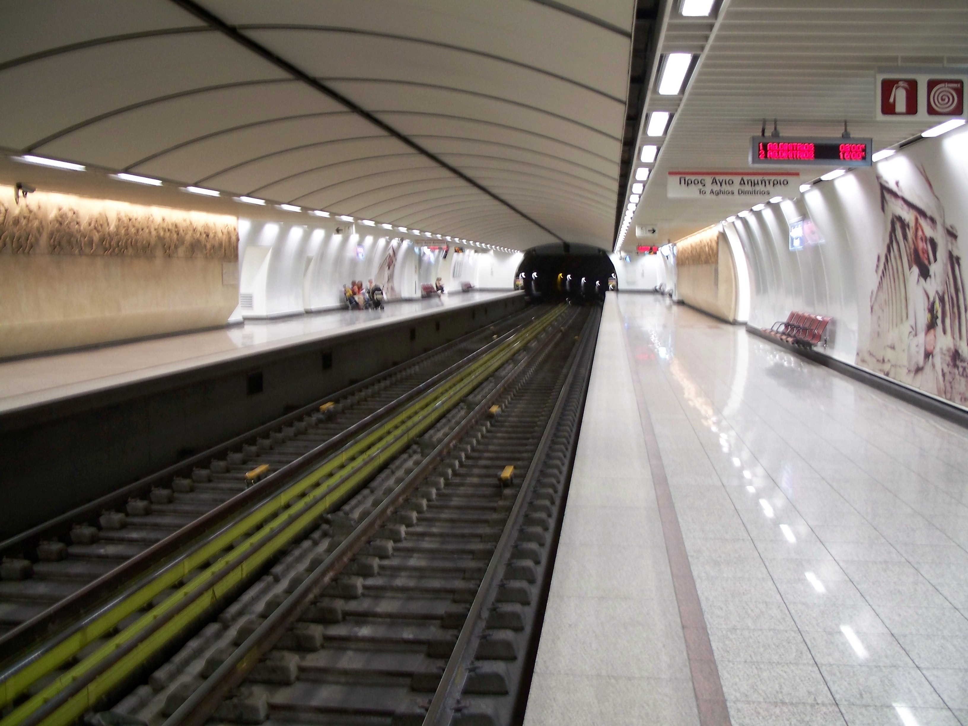 Acropolis station of Athens Metro system. The station is decorated by a huge poster of Melina Merkouri (right foreground) and reproductions of the Elgin marbles of Parthenon (right and left background).